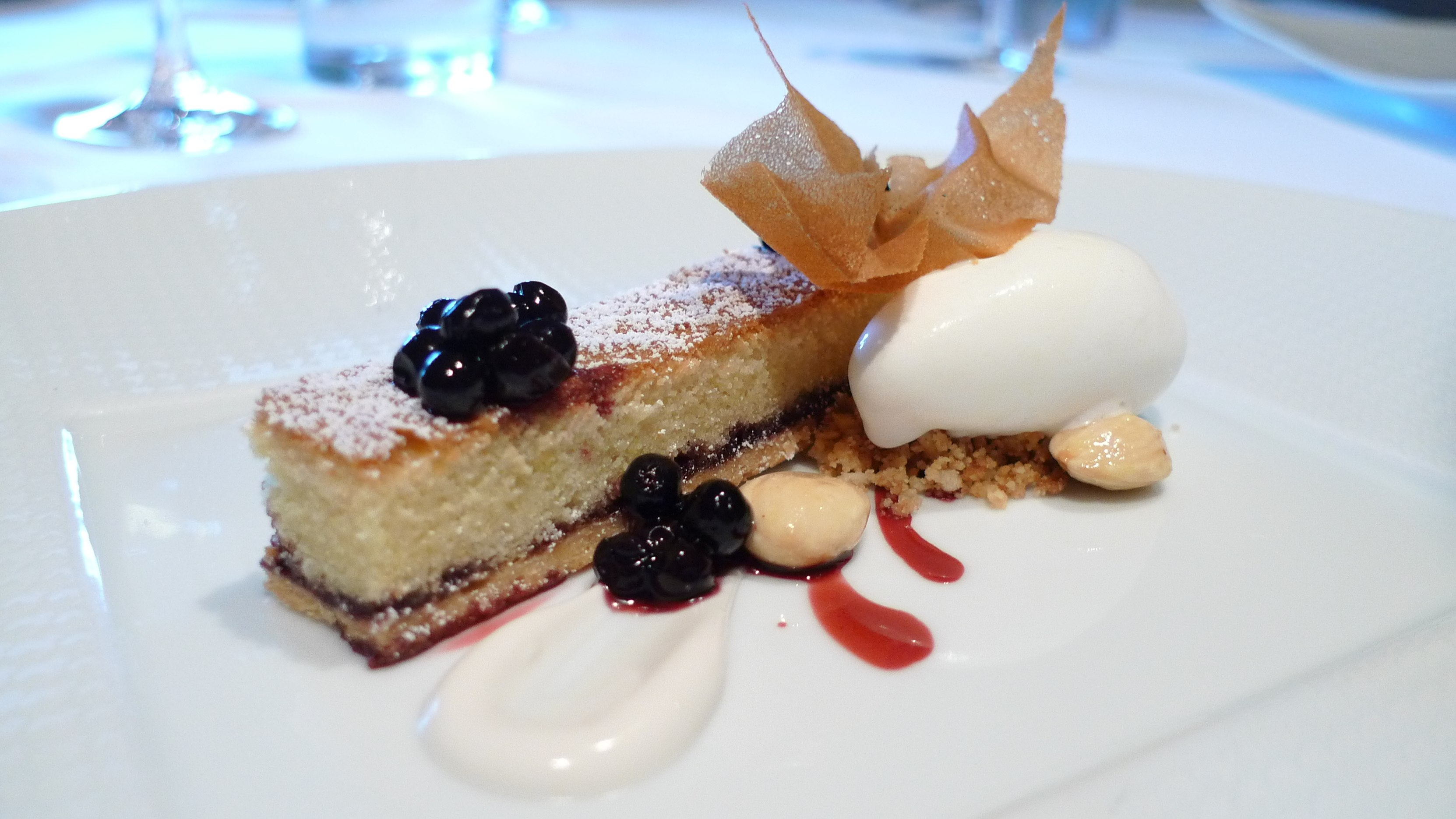 Huckleberries, Marcona Almonds, and Créme Fraîche Sherbet